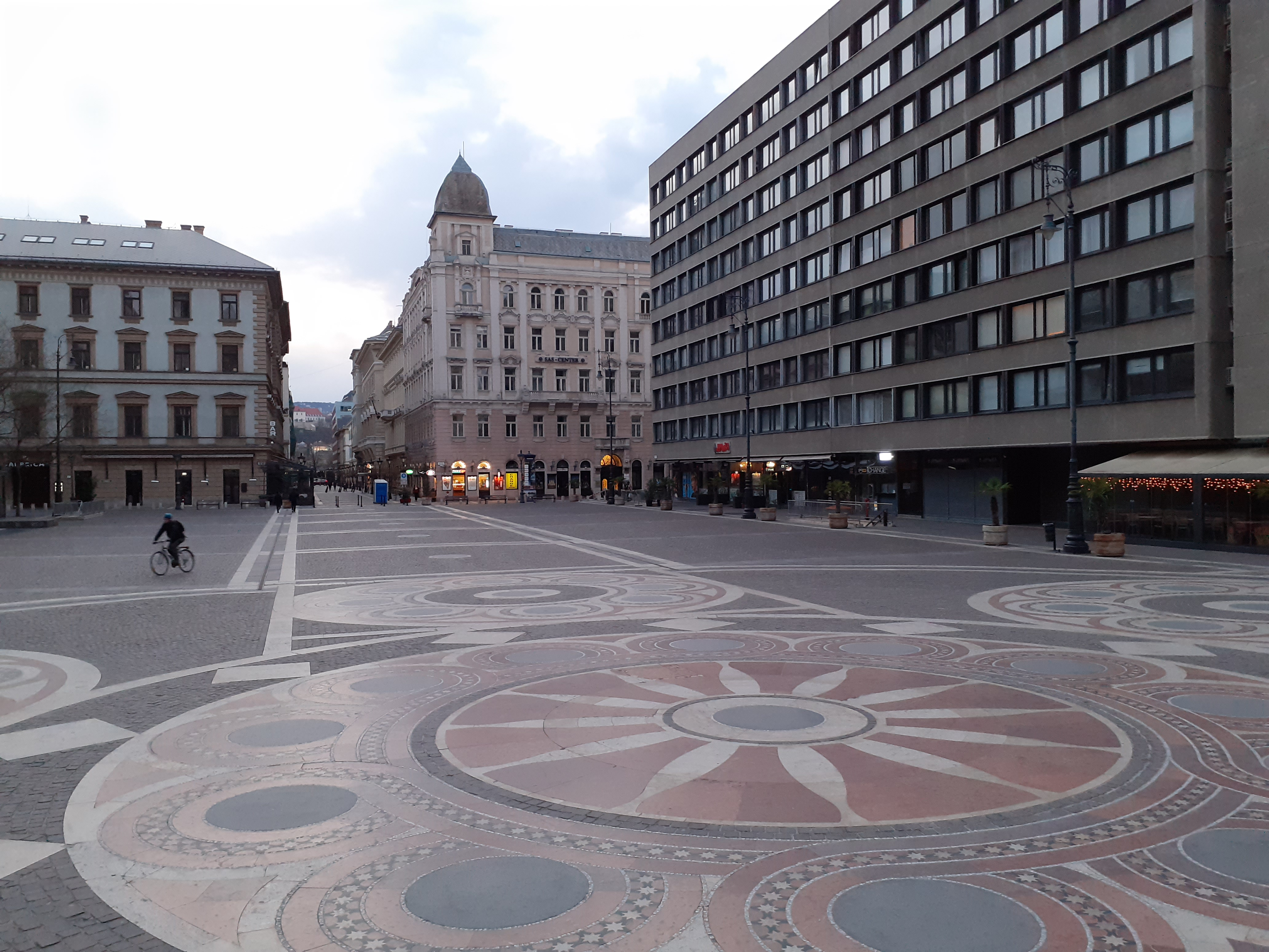 Empty Szent István tér in Budapest during the COVID-19 pandemic